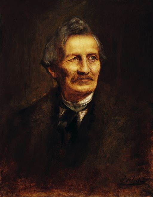 Gottfried Semper, German architect (1803-1879)